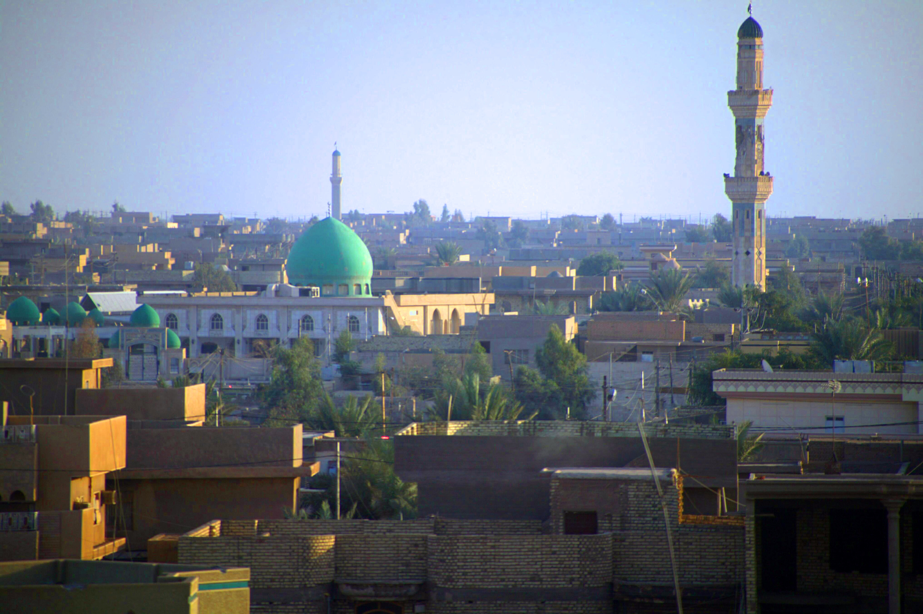 The city of Fallujah, Al Anbar Province, Iraq, during Operation IRAQI FREEDOM. (Released to Public) Location: FALLUJAH, AL ANBAR IRAQ (IRQ) DoD photo by: CPL JOEL A. CHAVERRI, USMC Date Shot: 10 Nov 2004